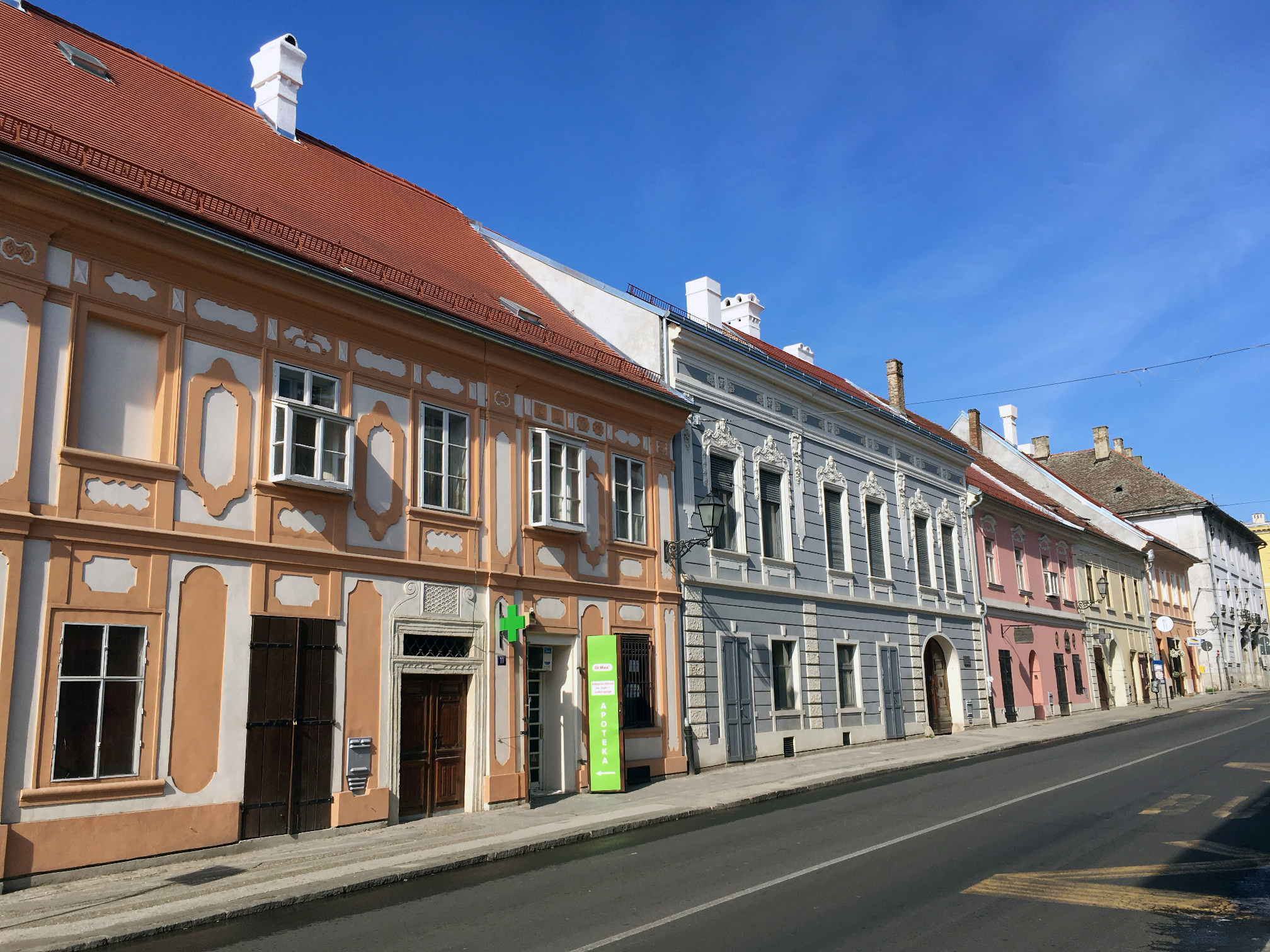 Reconstructed facades in Petrovaradin